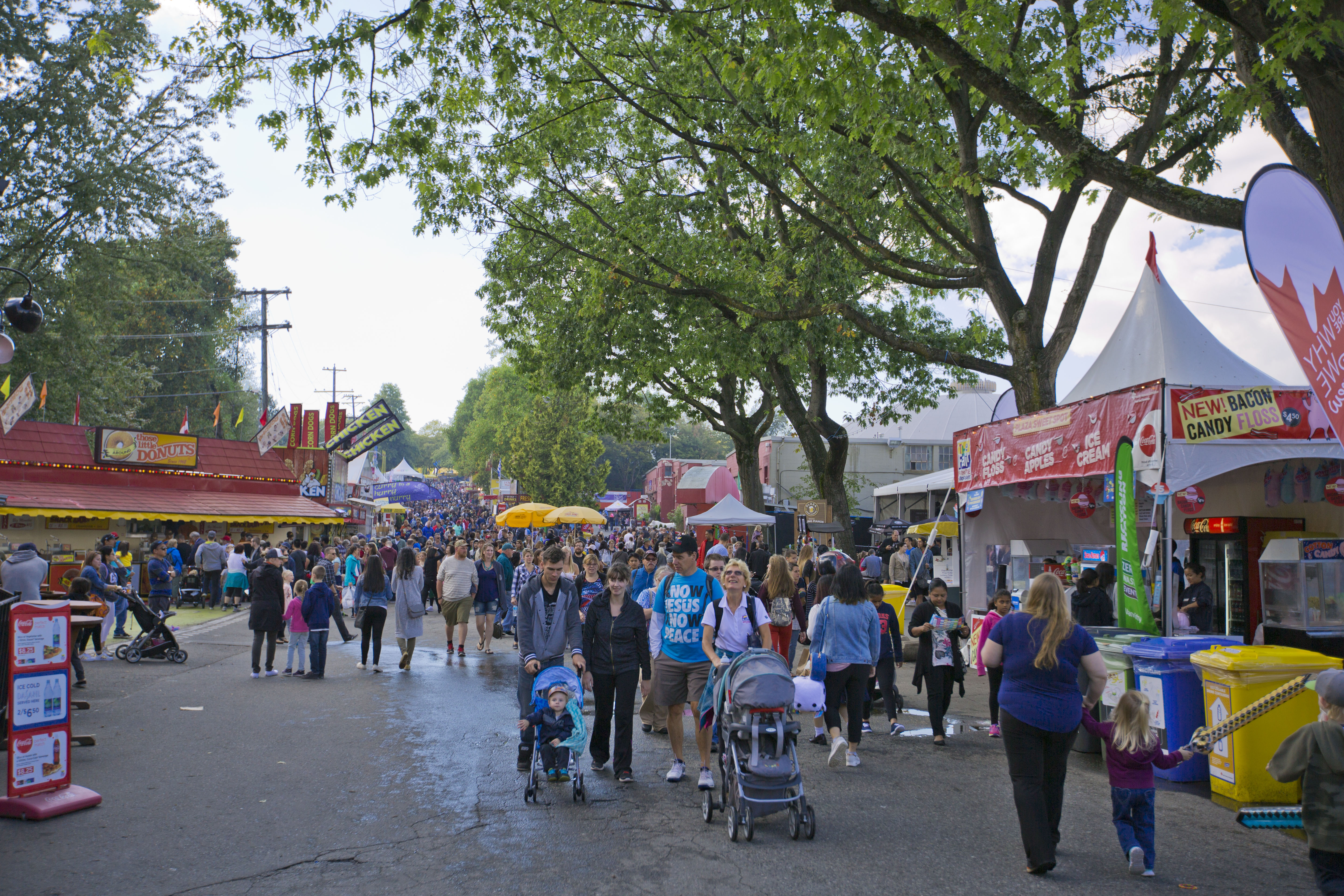 2016 Summer Fair @ Pacific National Exhibition